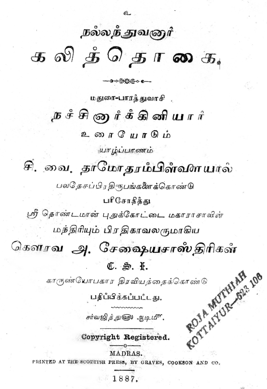 Title page of C. W. Damodaram Pillai's 1887 edition of the Kalittokai, a work of classical Tamil literature.